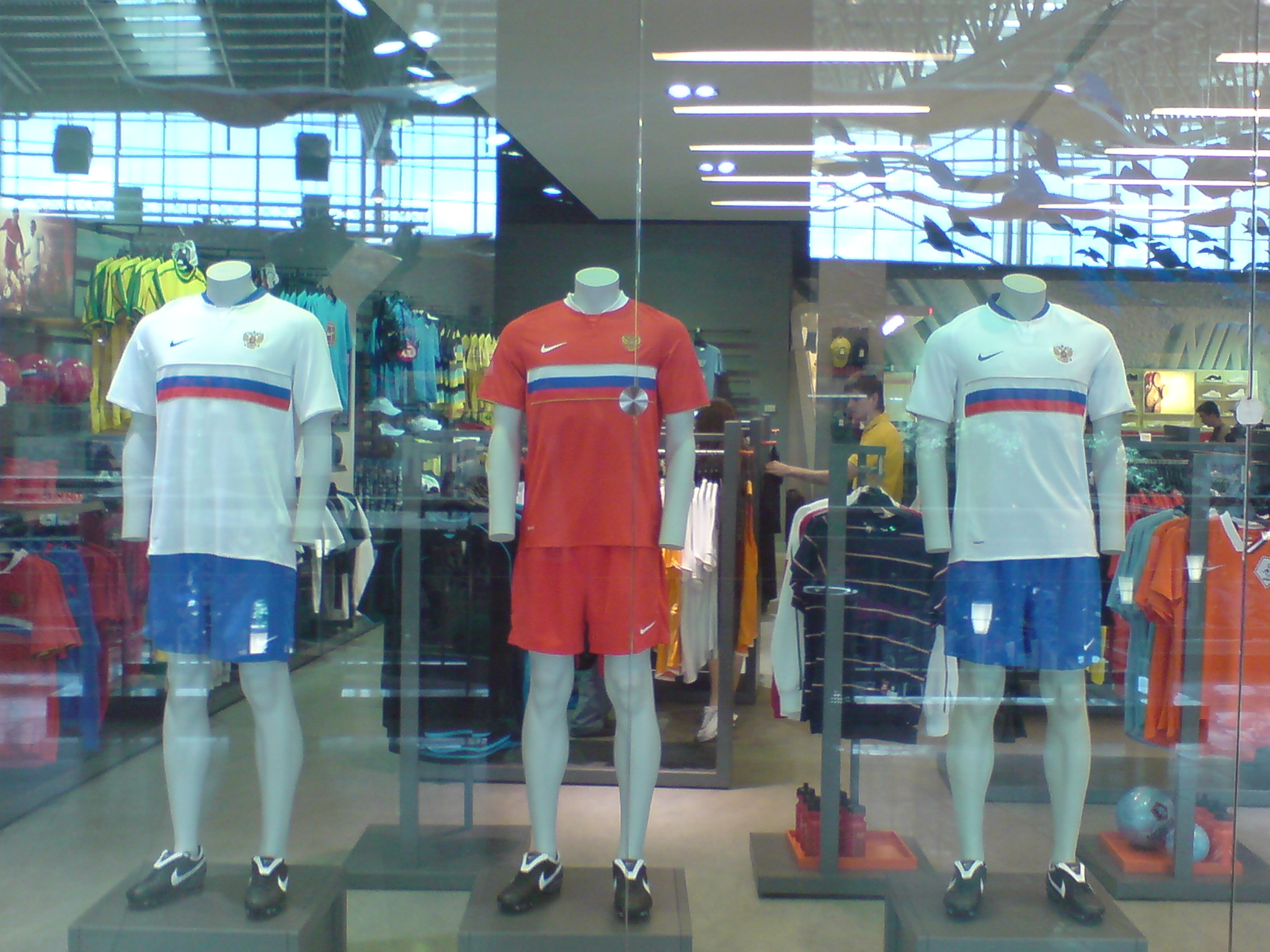 Russian national footbal team oficial kit (2008)